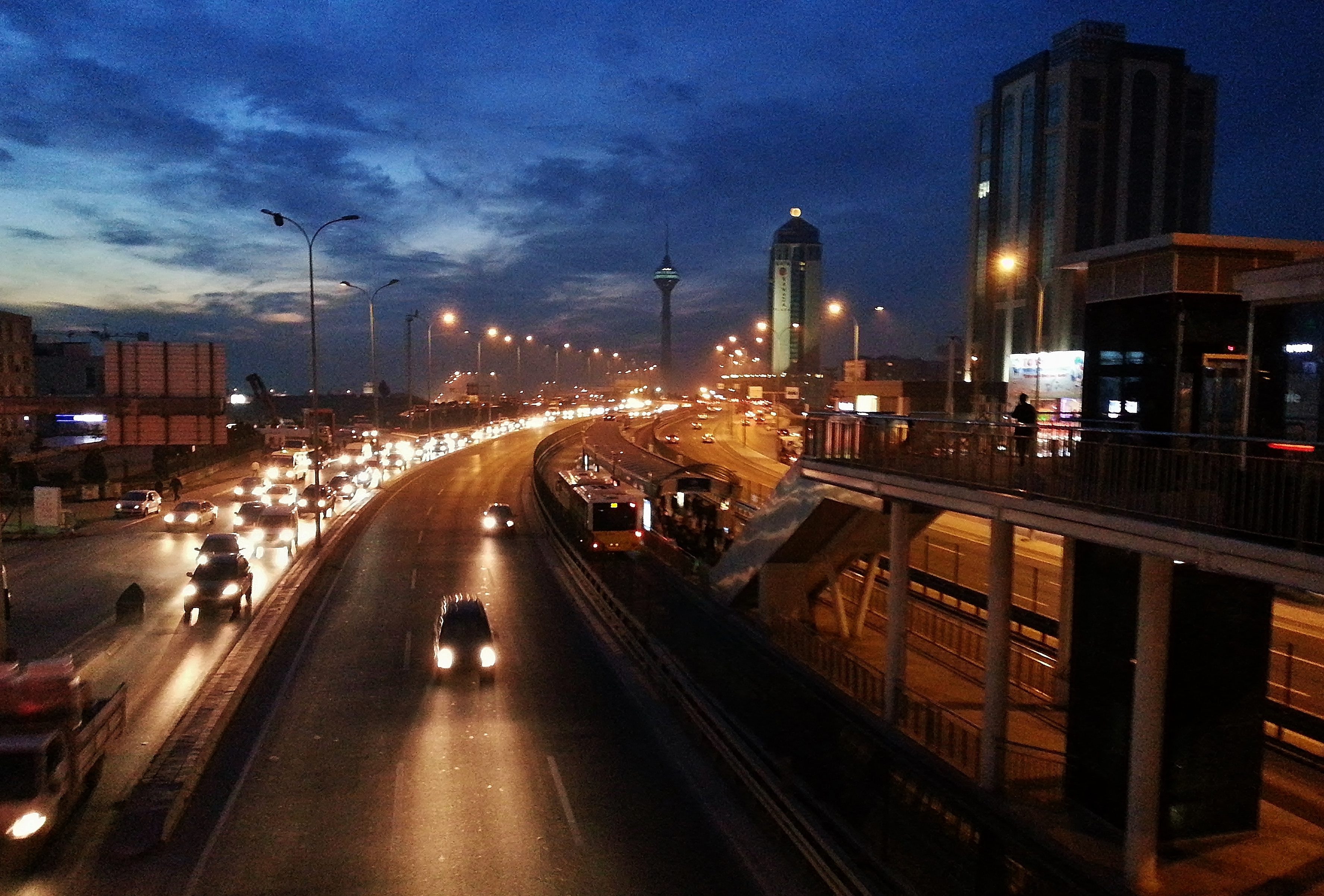 beylikduzu hadimkoy beykent metrobus stationTürkçe: Beylikduzu Hadımköy Beykent Metrobus Istasyonu, arçelik, autopia, giza plaza, fatih koleji outlet park, sarar shell.